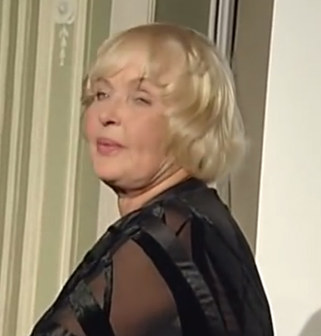 Ada Rogovtseva, Ukrainian actress, Hero of Ukraine